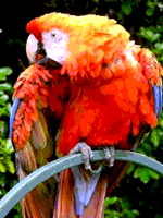 Sample image rendered with the MSX2 Screen 8 color palette